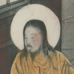 Chinese depiction of Jesus and the rich man (Mark 10) - 1879, Beijing, China